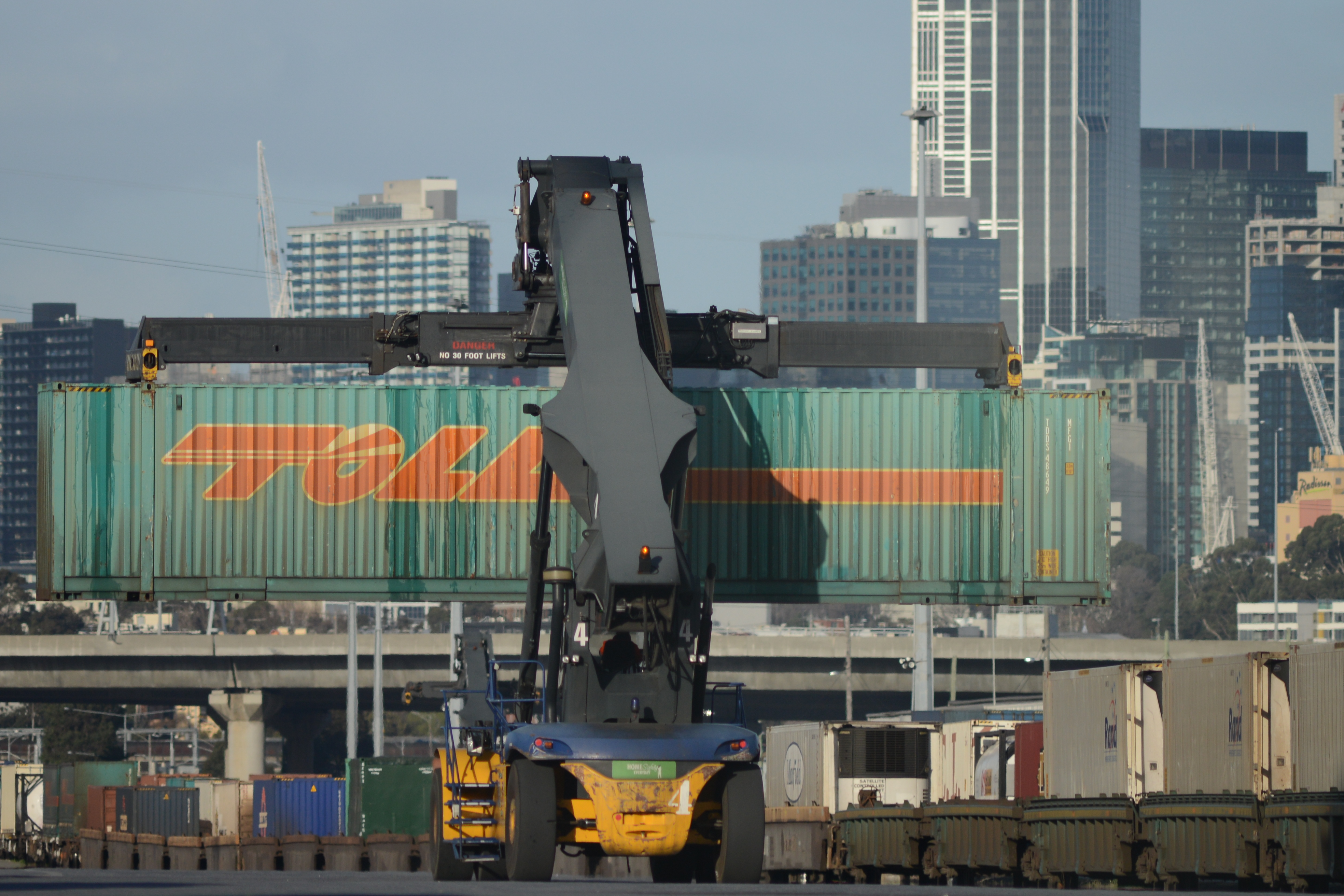 Dynon Road Rail Yards Toll Intermodal container being unloaded from train with Melbourne CBD in background